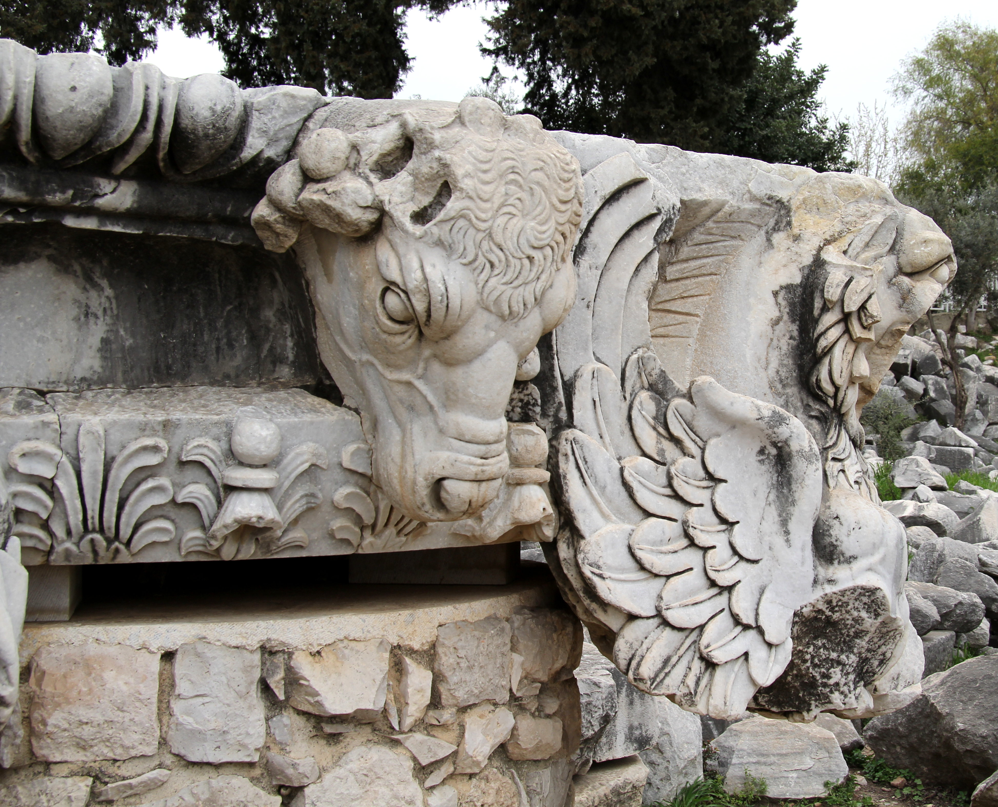 Didyma, an ancient Greek sanctuary with a temple and an oracle at the Western coast of Asia Minor in Turkey